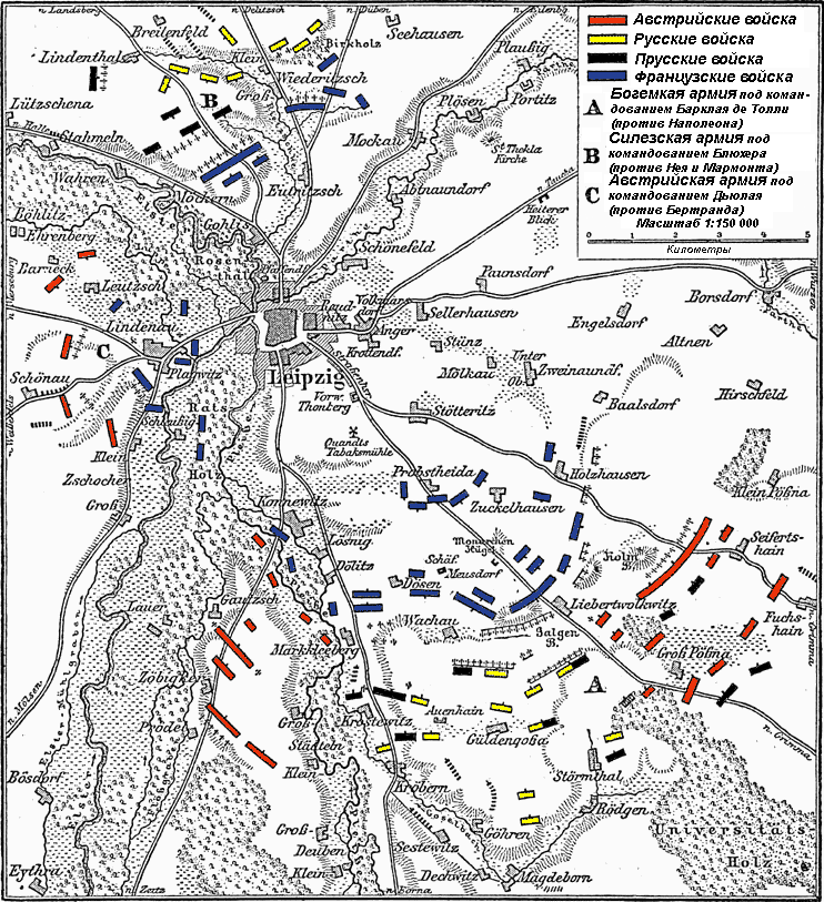 Historic map of the battle of the nations by Leipzig (16.10.1813). Russian colored version.